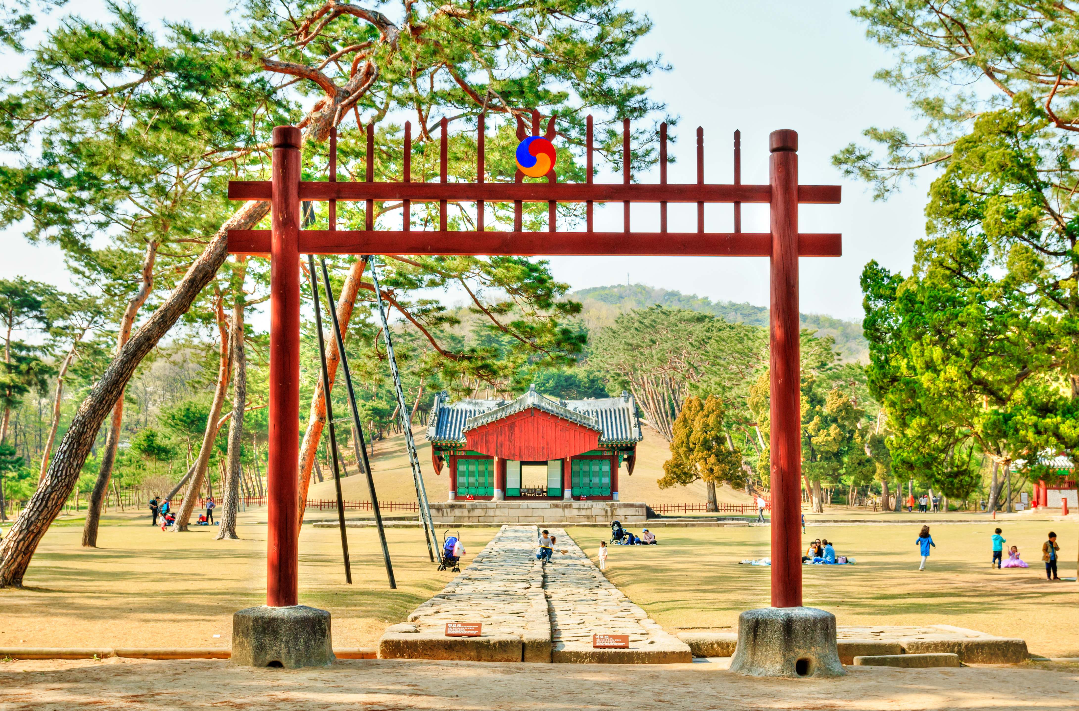 Taereung, the tomb of Queen Munjeong, the royal third consort of King Jungjong, the 11th ruler of the Joseon Dynasty(r. 1506~1544)